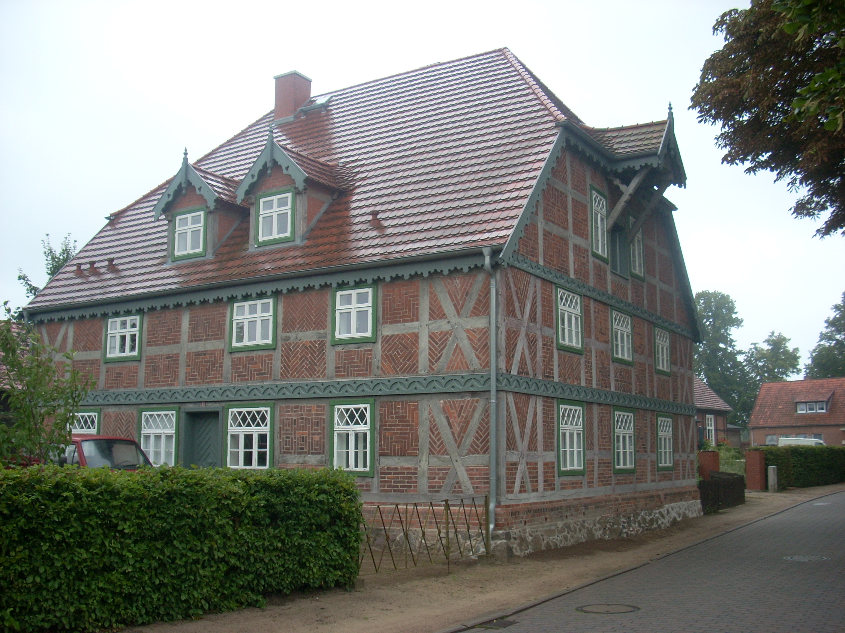 Protected building in Dobbertin , Mecklenburg-Vorpommern - Samenhous